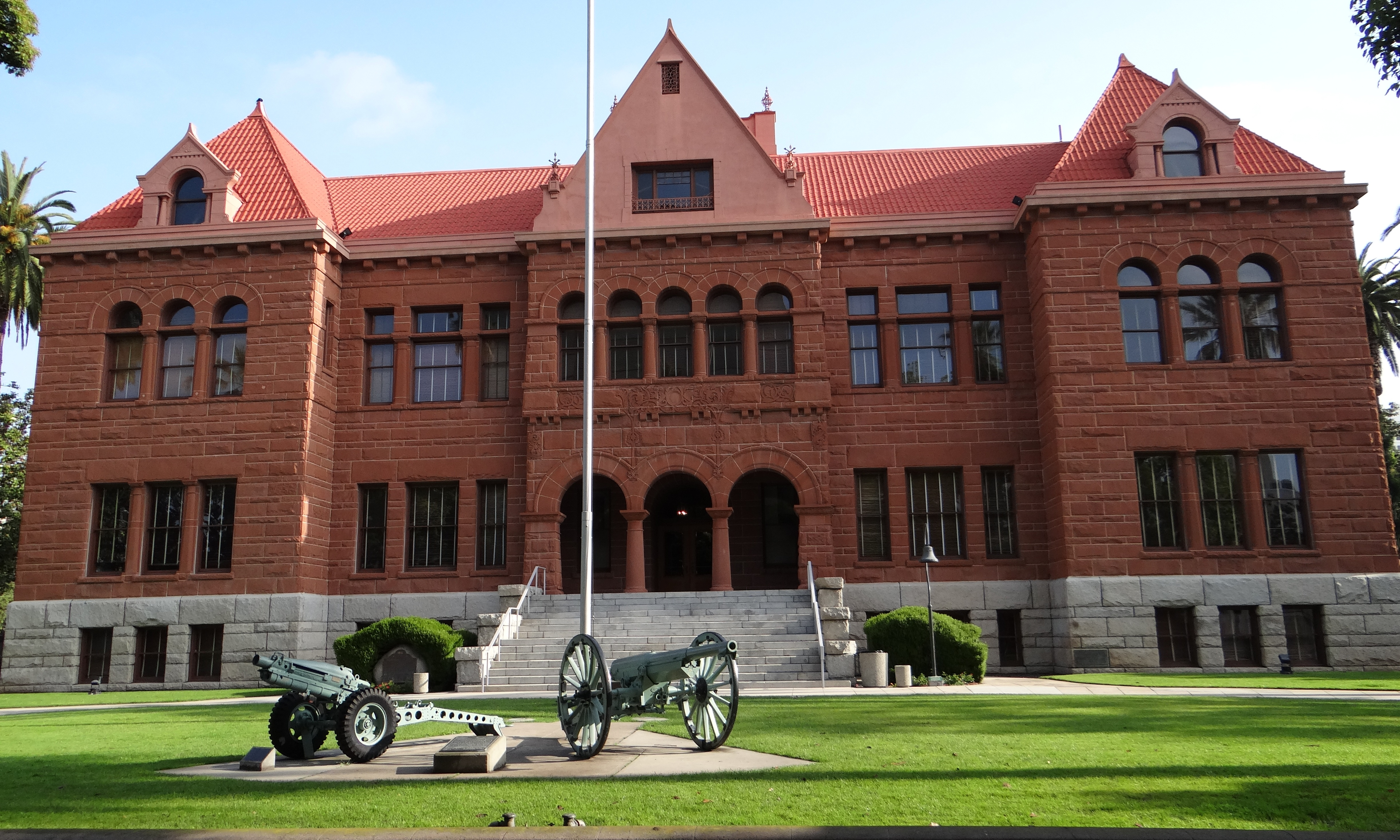 Old Orange County Courthouse, Santa Ana, California, 211 W. Santa Ana Blvd., Santa Ana, California. Listed on the National Register of Historic Places.